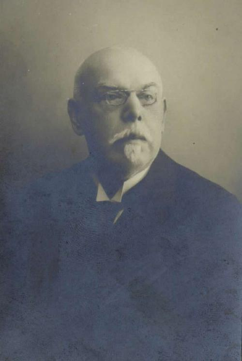 Anton Funtek (1862-1932), Slovenian poet, writes and playwright